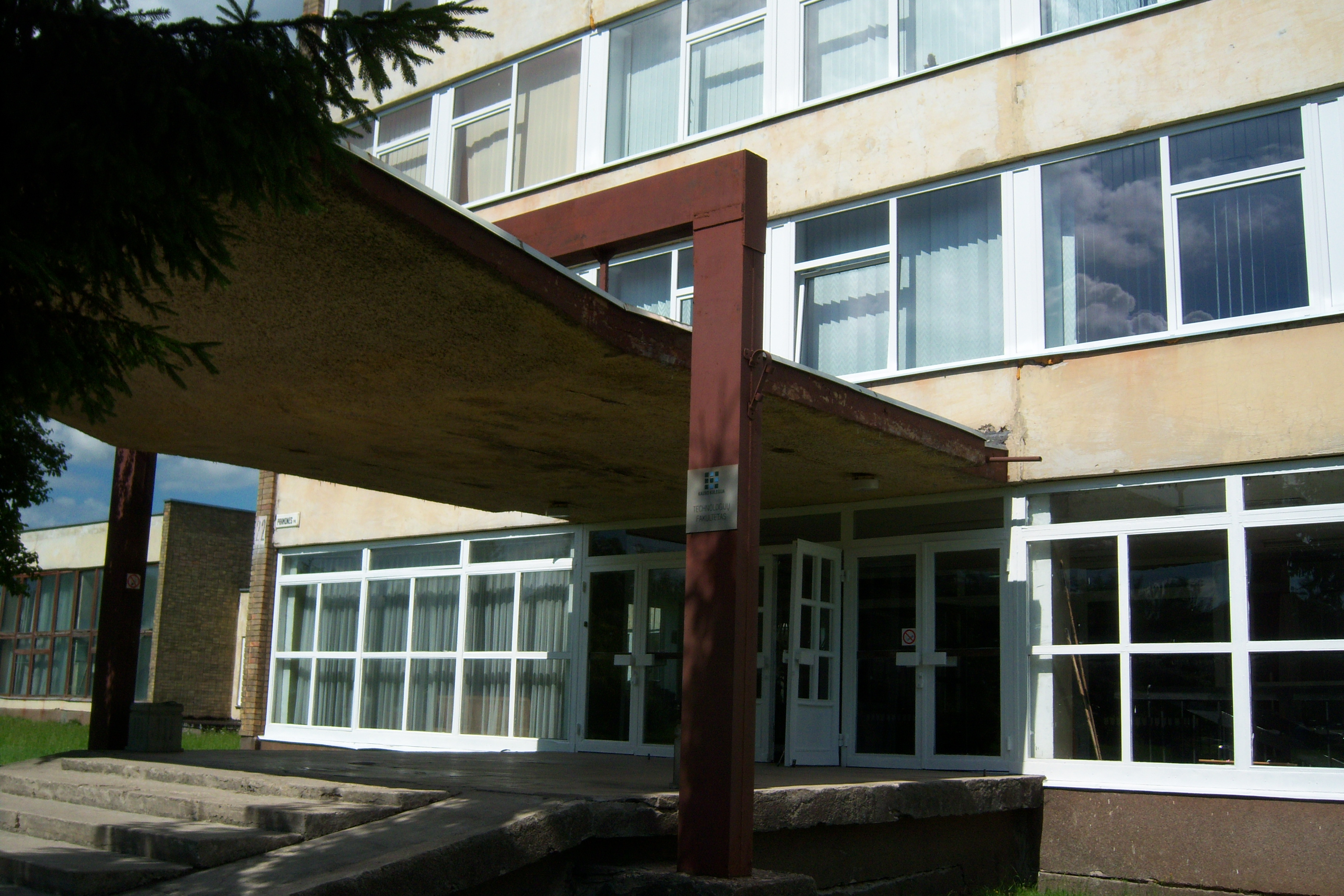 Kaunas College, Lithuania